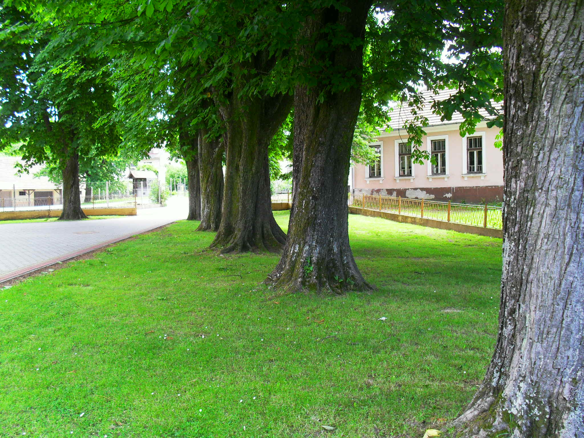 Old chestnuts near the Church of St. Mark in Selnica, Međimurje Croatia